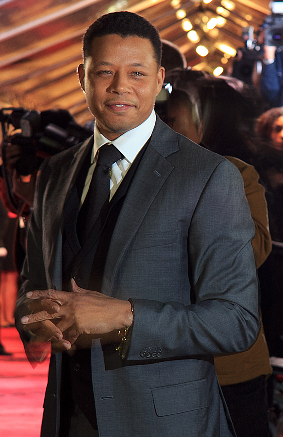 Terrence Howard at the 2011 Toronto International Film Festival.